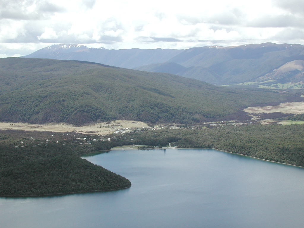 Kerr Bay and St Arnaud, Lake Rotoiti